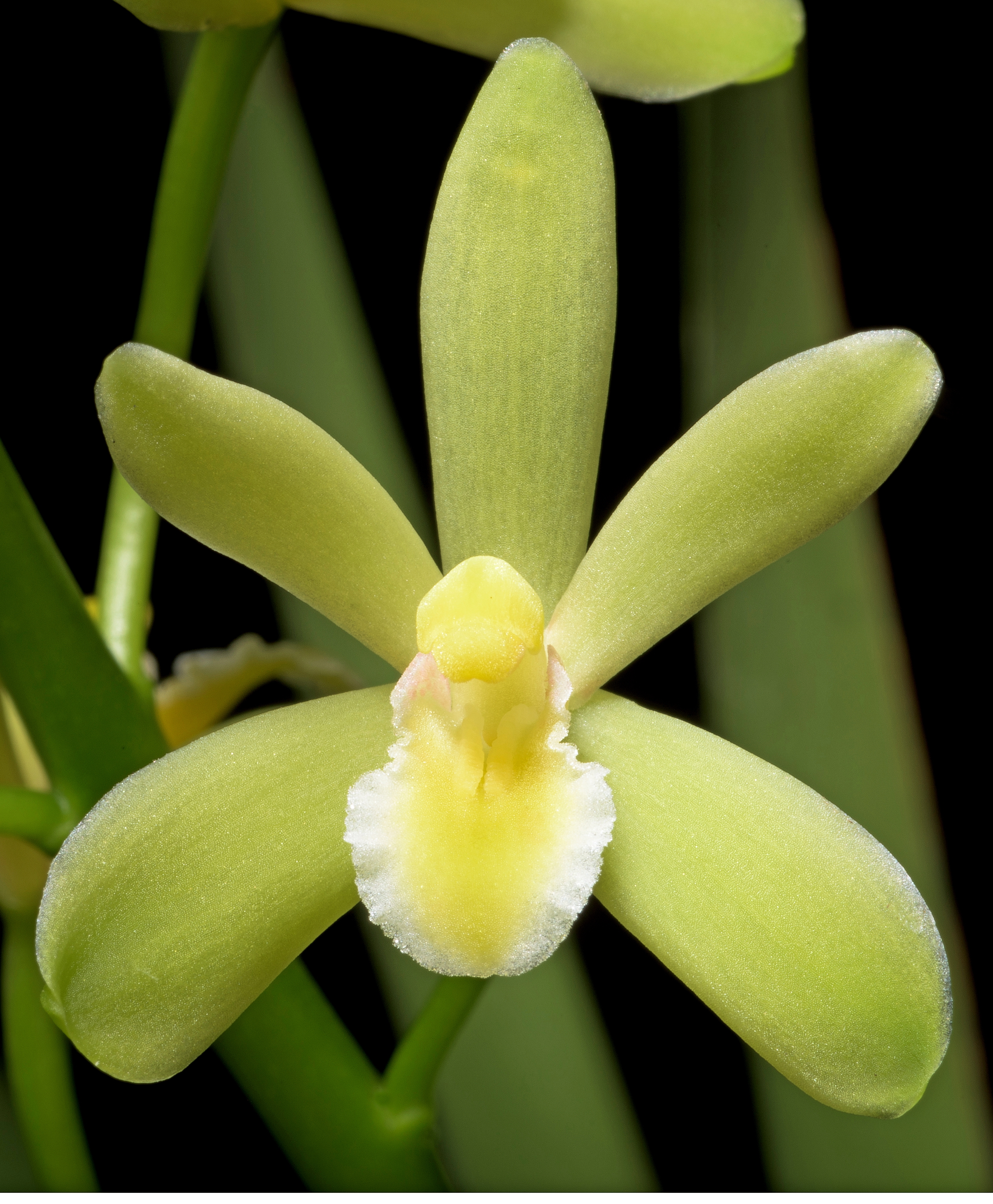 SECTION Floribundum Seth & Cribb 1984 Distribution: W. Malesia to Philippines (Palawan) 42 BOR JAW LSI MLY PHI SUM Found in Asia-Tropical Malesia Borneo, Jawa, Malaya, Philippines, Sumatera Heterotypic Synonyms: Cymbidium variciferum Rchb.f., Bonplandia (Hannover) 4: 324 (1856). Cymbidium sanguinolentum Teijsm. & Binn., Natuurk. Tijdschr. Ned.-Indië 24: 318 (1862). Cymbidium sanguineum Teijsm. & Binn., Cat. Hort. Bot. Bogor.: 51 (1866), orth. var. Cymbidium pulchellum Schltr., Repert. Spec. Nov. Regni Veg. 8: 570 (1910), nom. illeg. Cymbidium chloranthum subsp. palawanense Lubag-Arquiza, Orchid Rev. 114: 264 (2006).